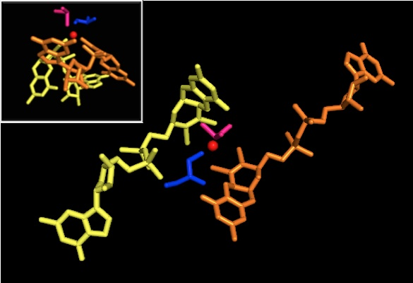 I made this image using Pymol